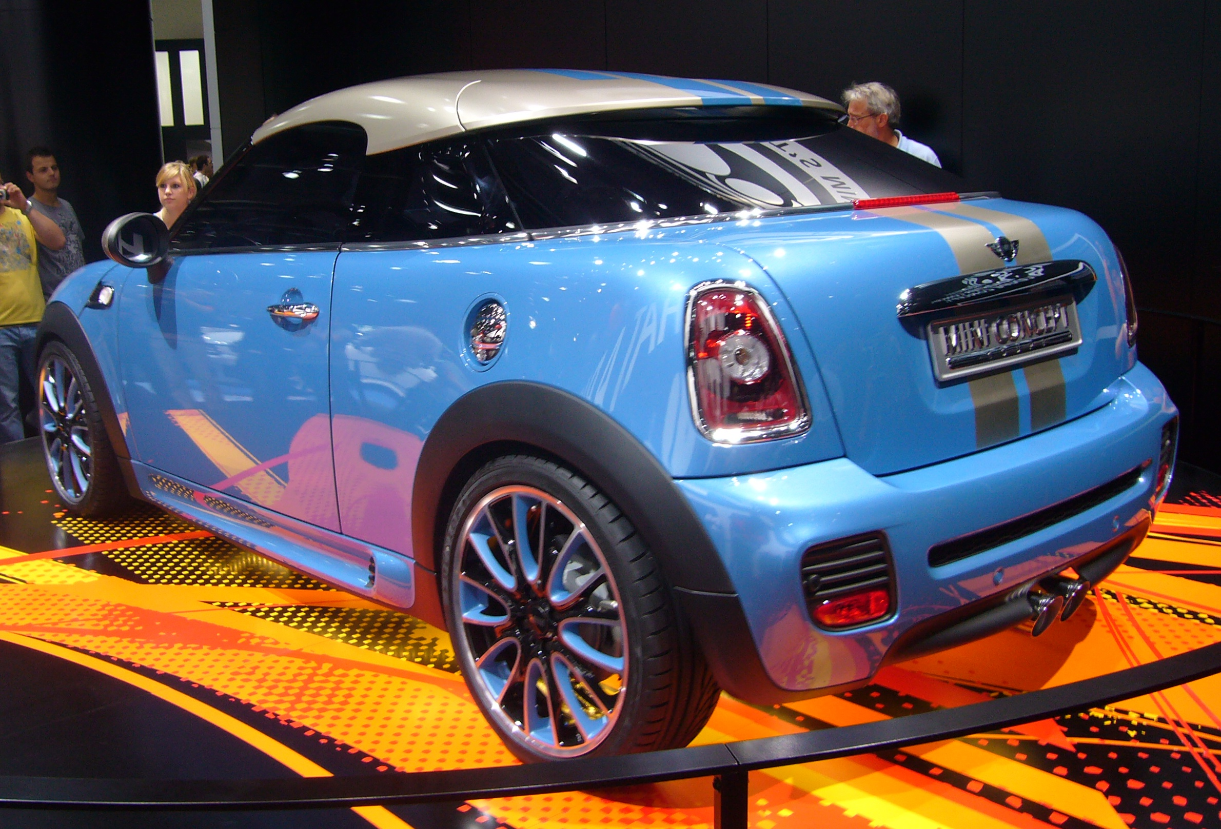 Mini Coupe Concept at IAA Frankfurt 2009